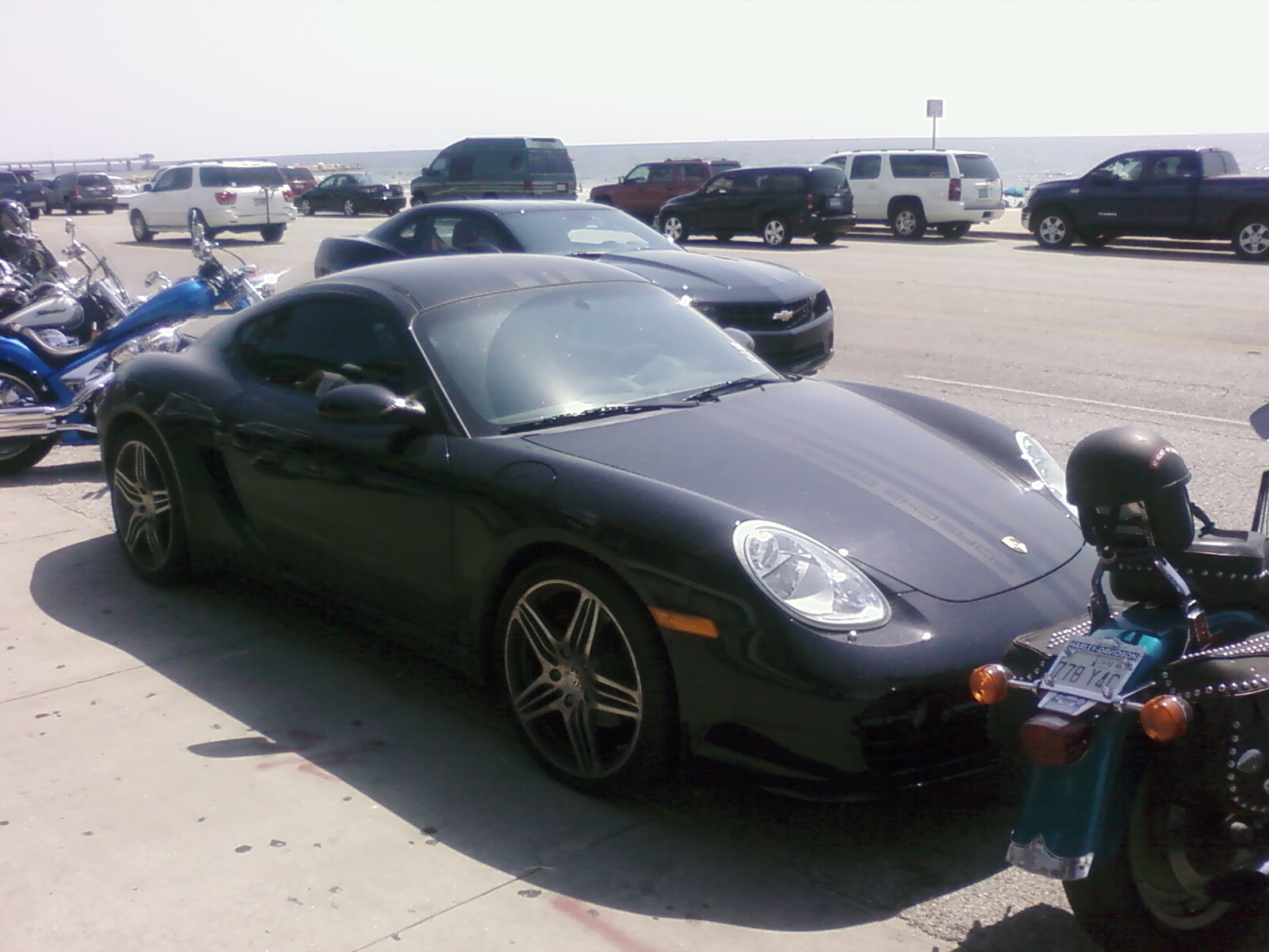 Cayman S Porsche Design Edition 1